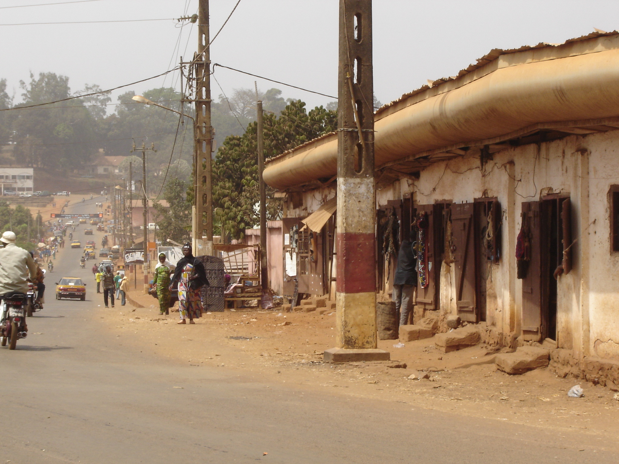 Foumban high street